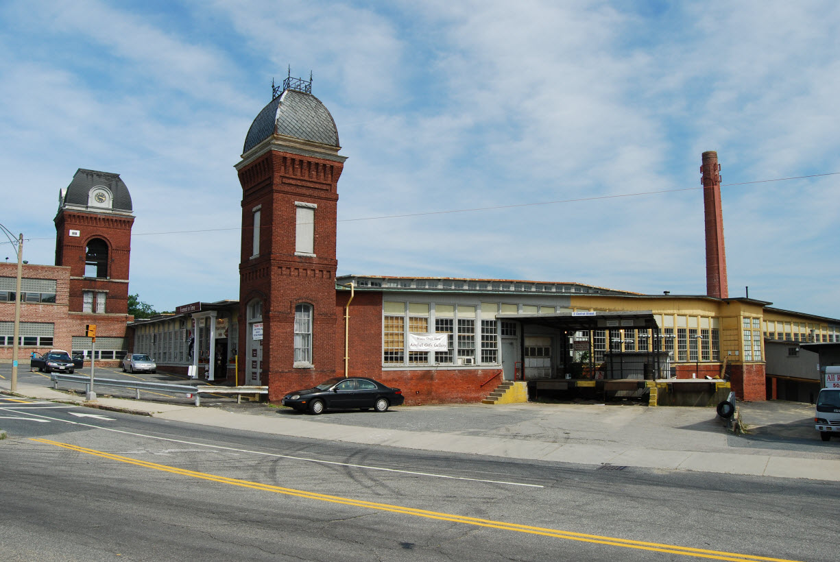 Historic mills in Saxonville, Massachusetts (a village of Framingham)